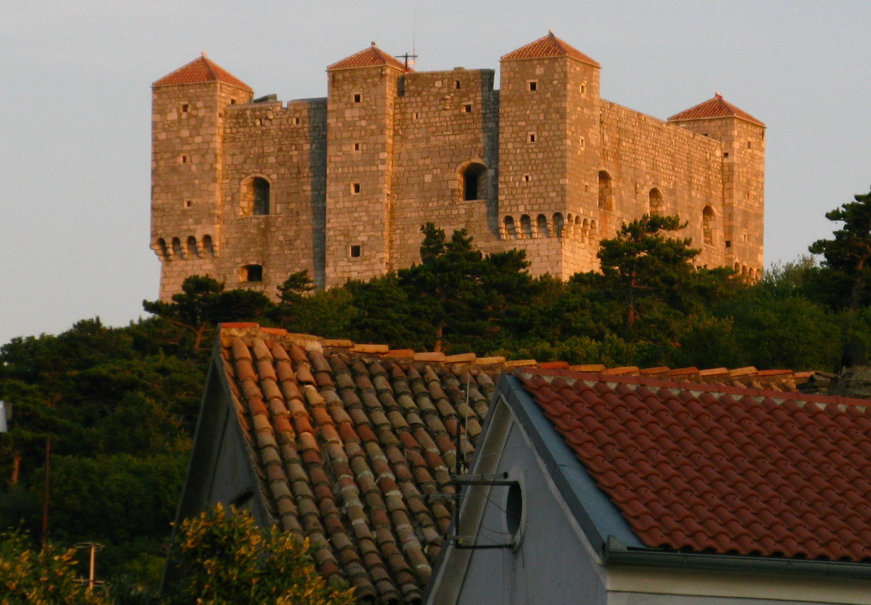 Westside of Fortress Nehaj fortress in Senj / Croatia / Adriatic Sea at sunset.